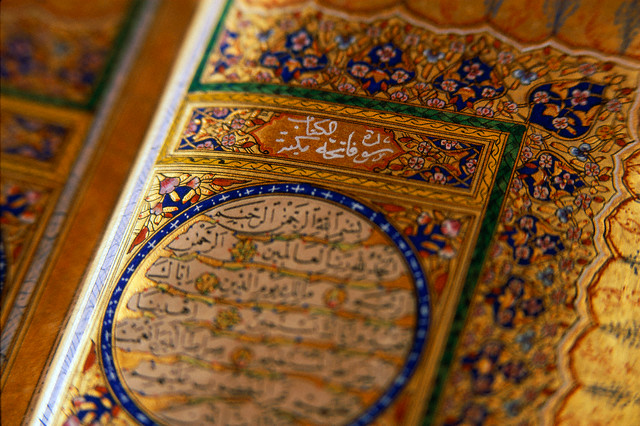 The opening page of a Koran made in Istanbul in 1867 AD (1284 AH).